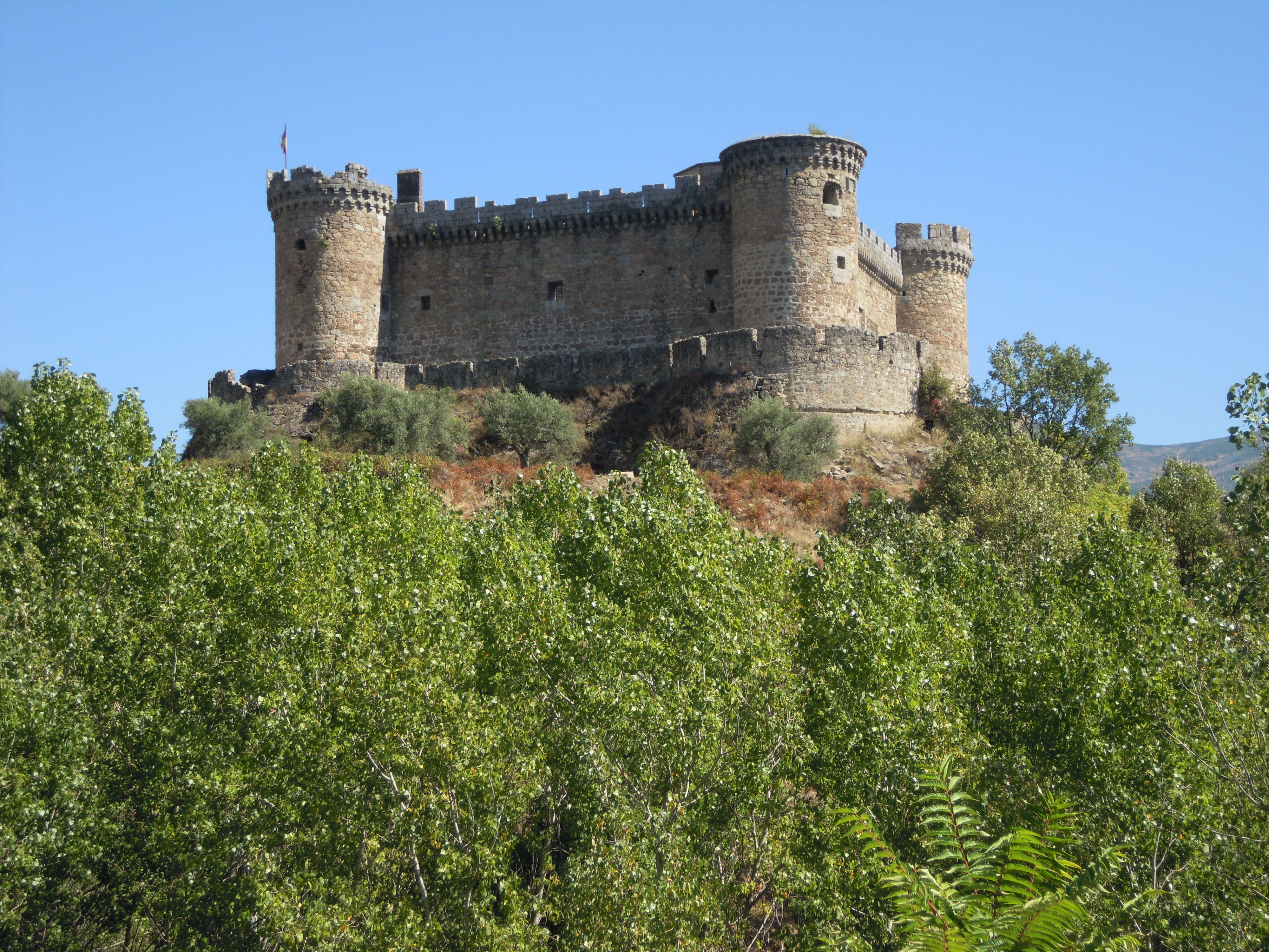 The Castle in Mombeltrán, Castile and León, Spain